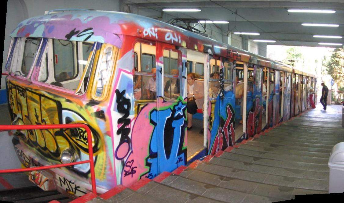 Funicular del Tibidabo, Barcelona, at upper station.